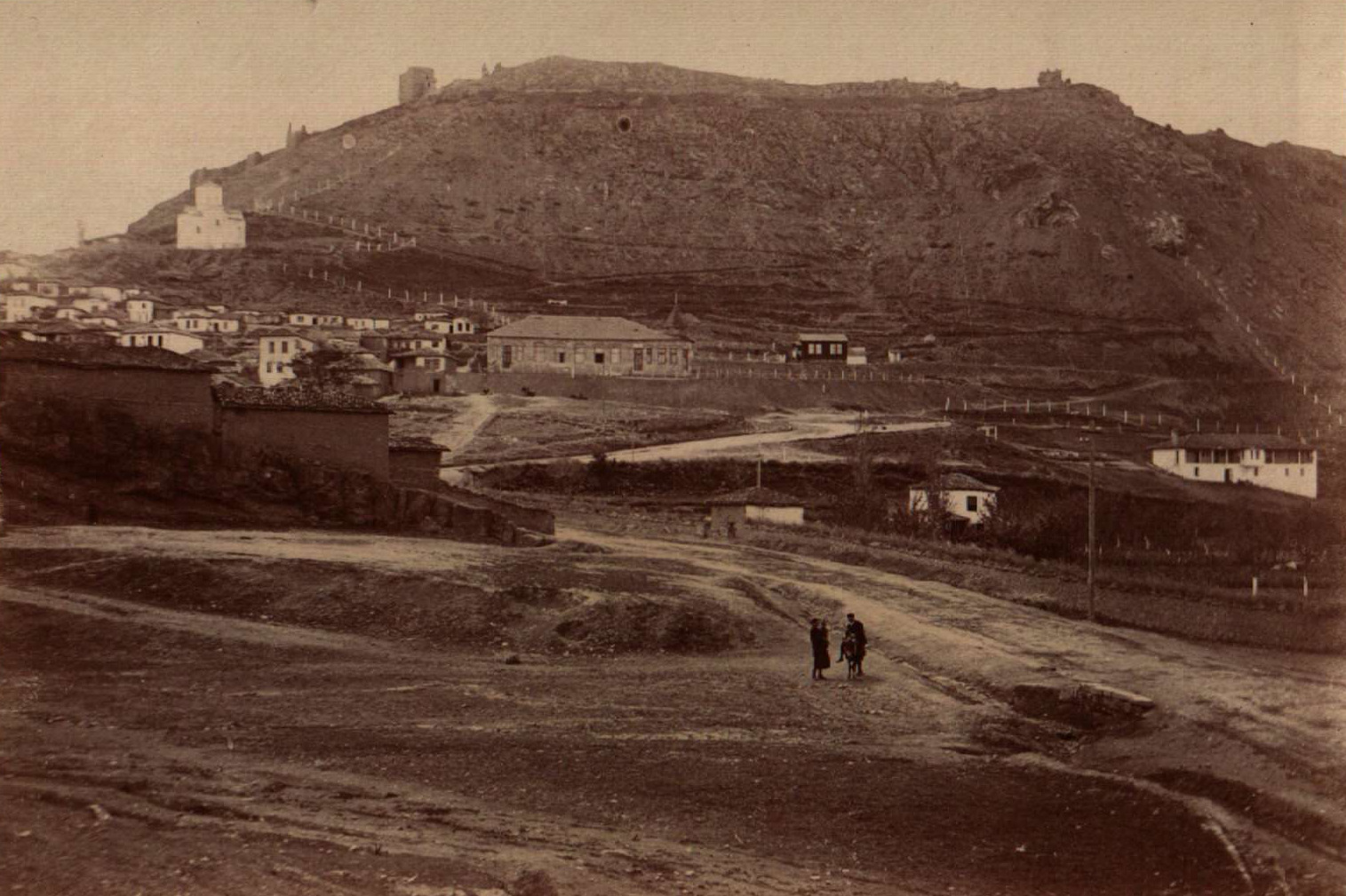 Villages in Macedonia